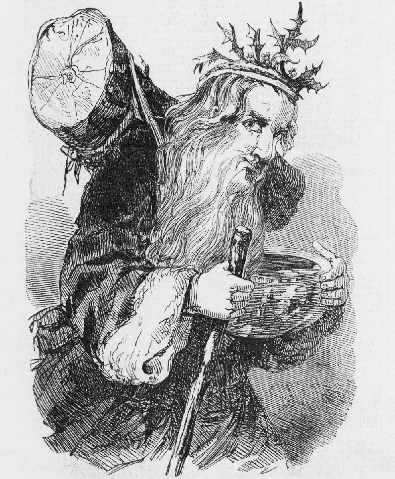 'Christmas with the Yule Log'. The illustration is accompanied by a verse which begins: "WHAT? Father Christmas! here again? With Yule Log on your back, And mighty store of racy things Well stuffed within your pack".